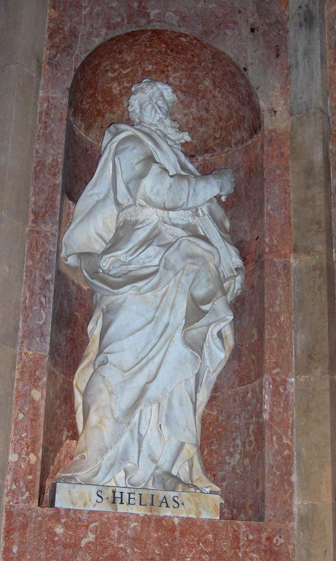 Statue of St. Elijah; church in the Mafra National Palace; Mafra, Portugal